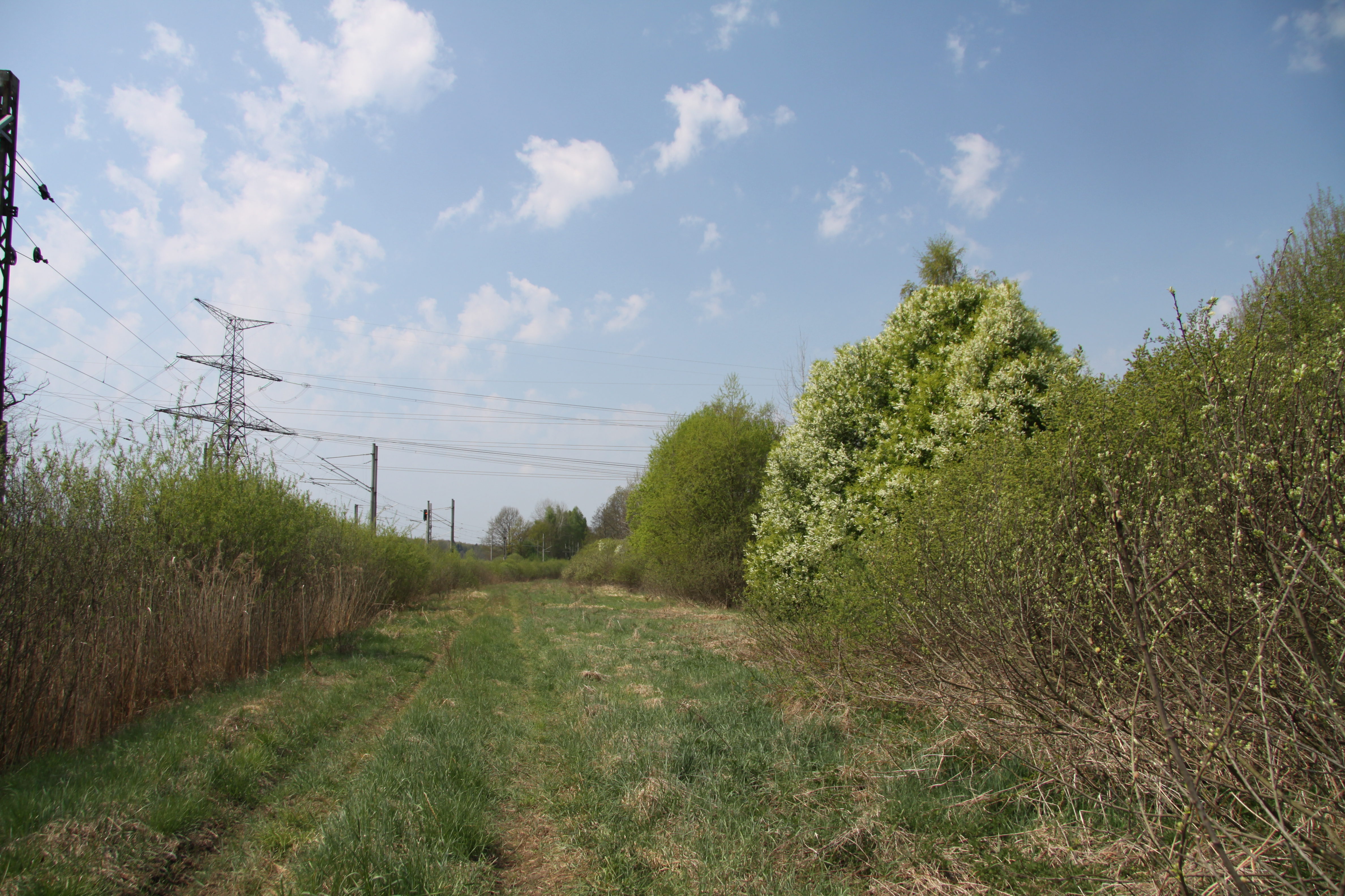 Natural reserve Radomilická mokřina near Radomilice, České Budějovice District, Czech Republic